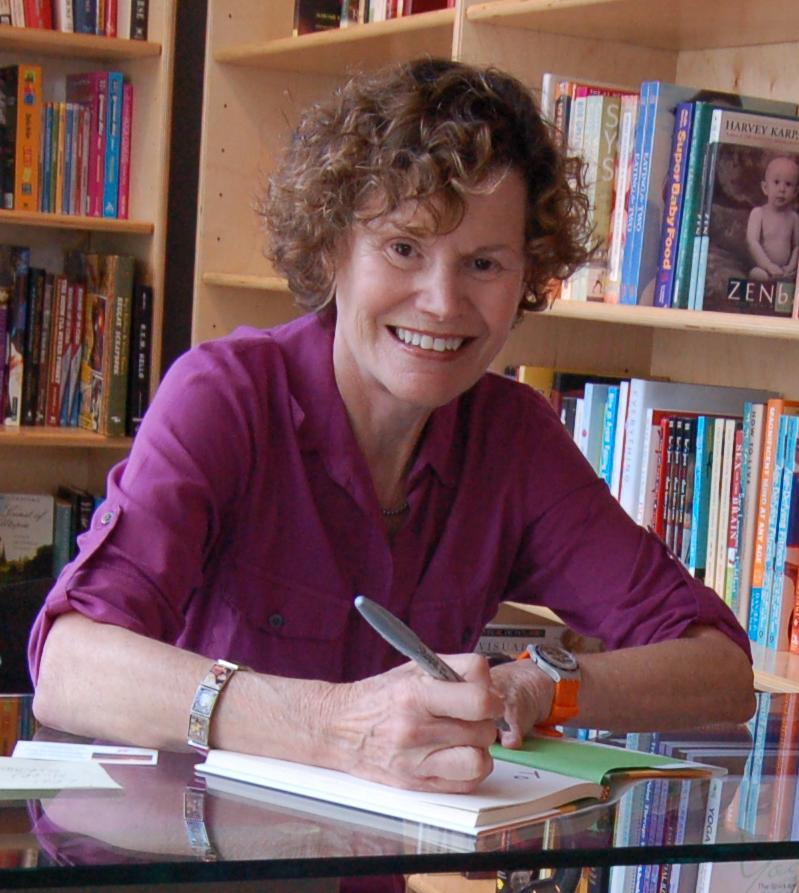 Photo of Judy Blume in 2009